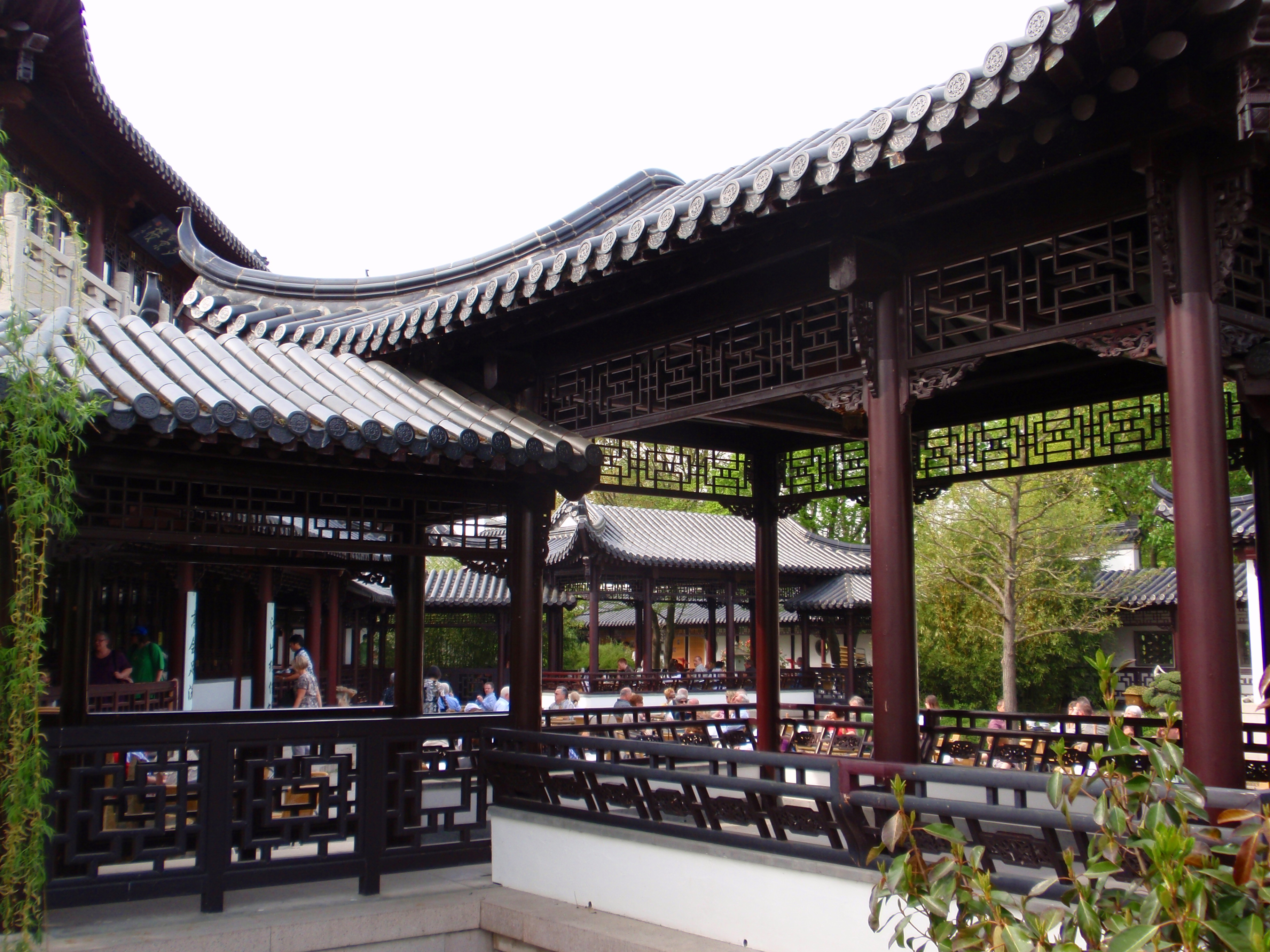 The chinese tea-pavillion "Duojingyuan" ("garden of many views") in the Luisenpark Mannheim (Germany)